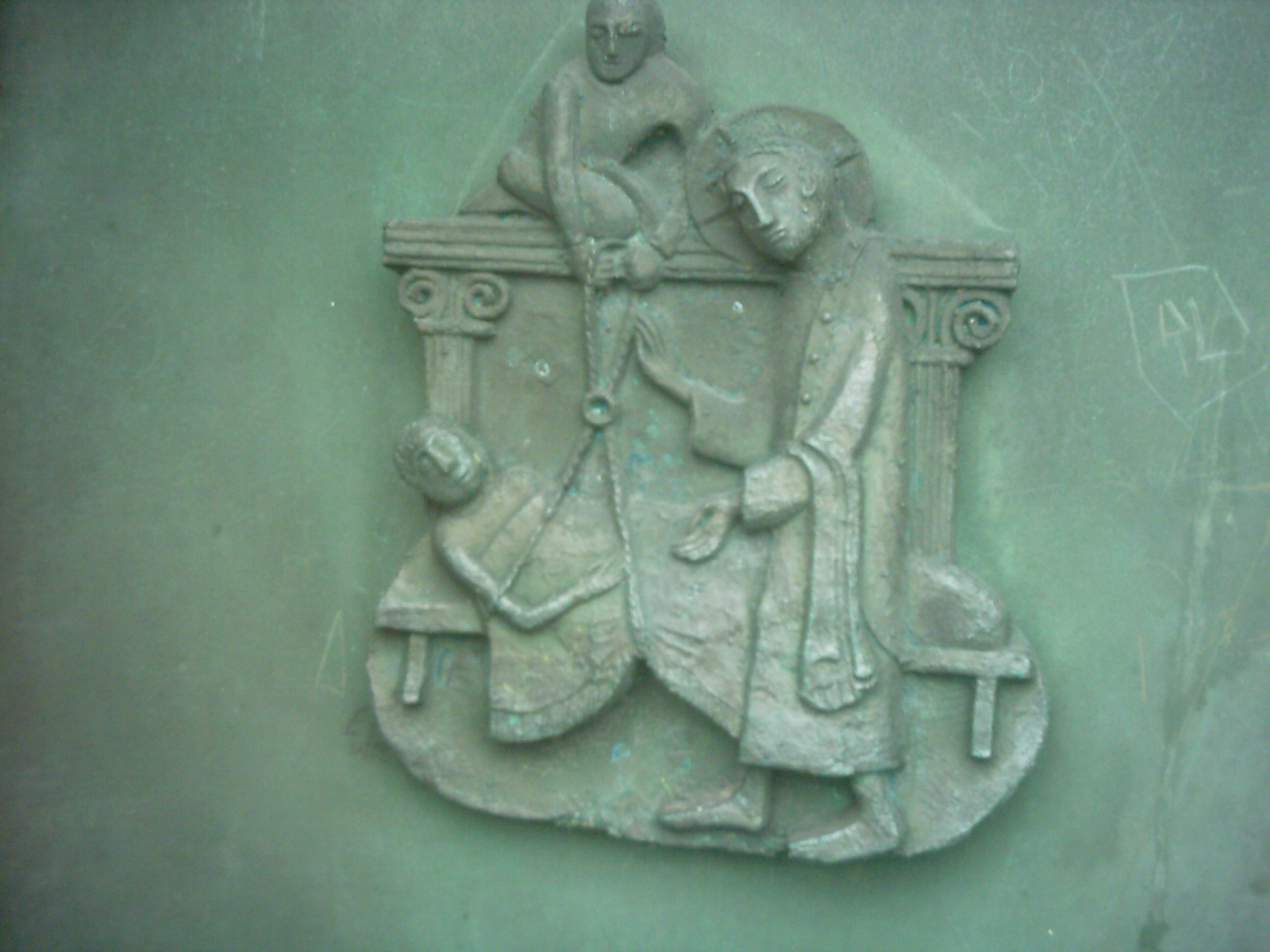 Galway museum item